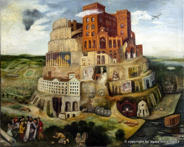 Agata Materowicz, oil painting "Babel in Lodz", 2012